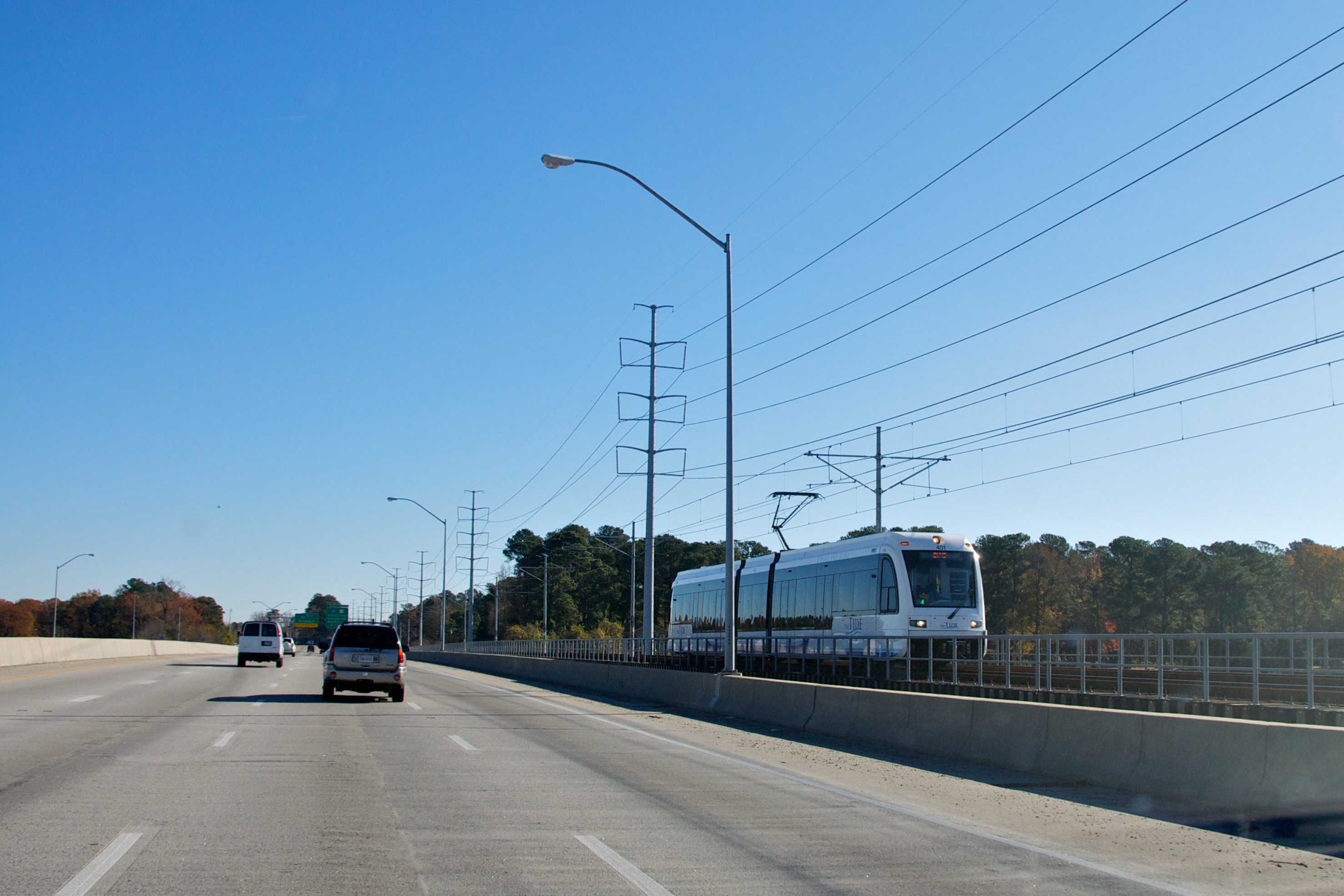 A Tide Light Rail vehicle runs parallel to I-264 over Broad Creek.